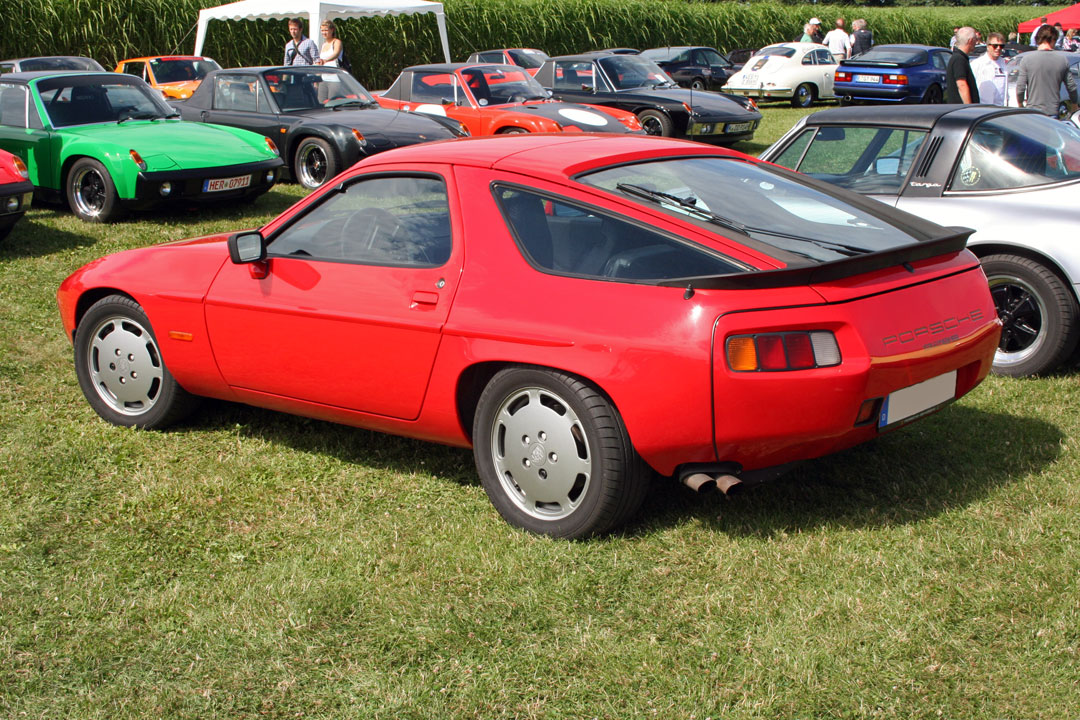 Red Porsche 928 S at Classic Days Schloss Dyck 2012. View: rear left